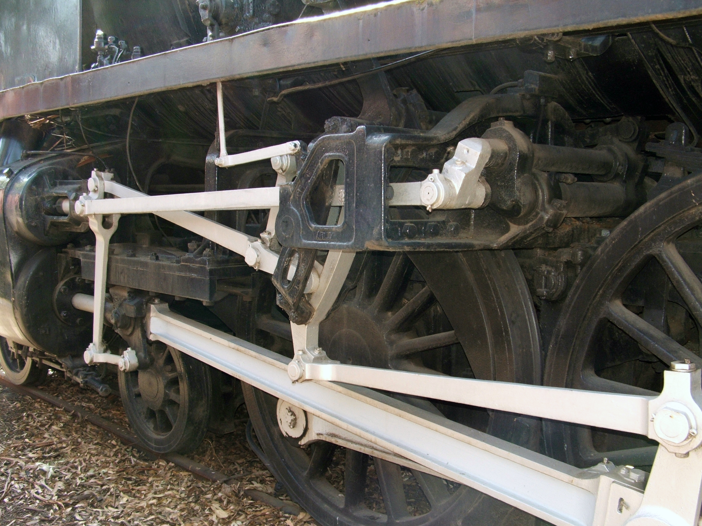 Detail view of H 220, showing Henschel und Sohn conjugated valve gear mechanism for the third, inside cylinder